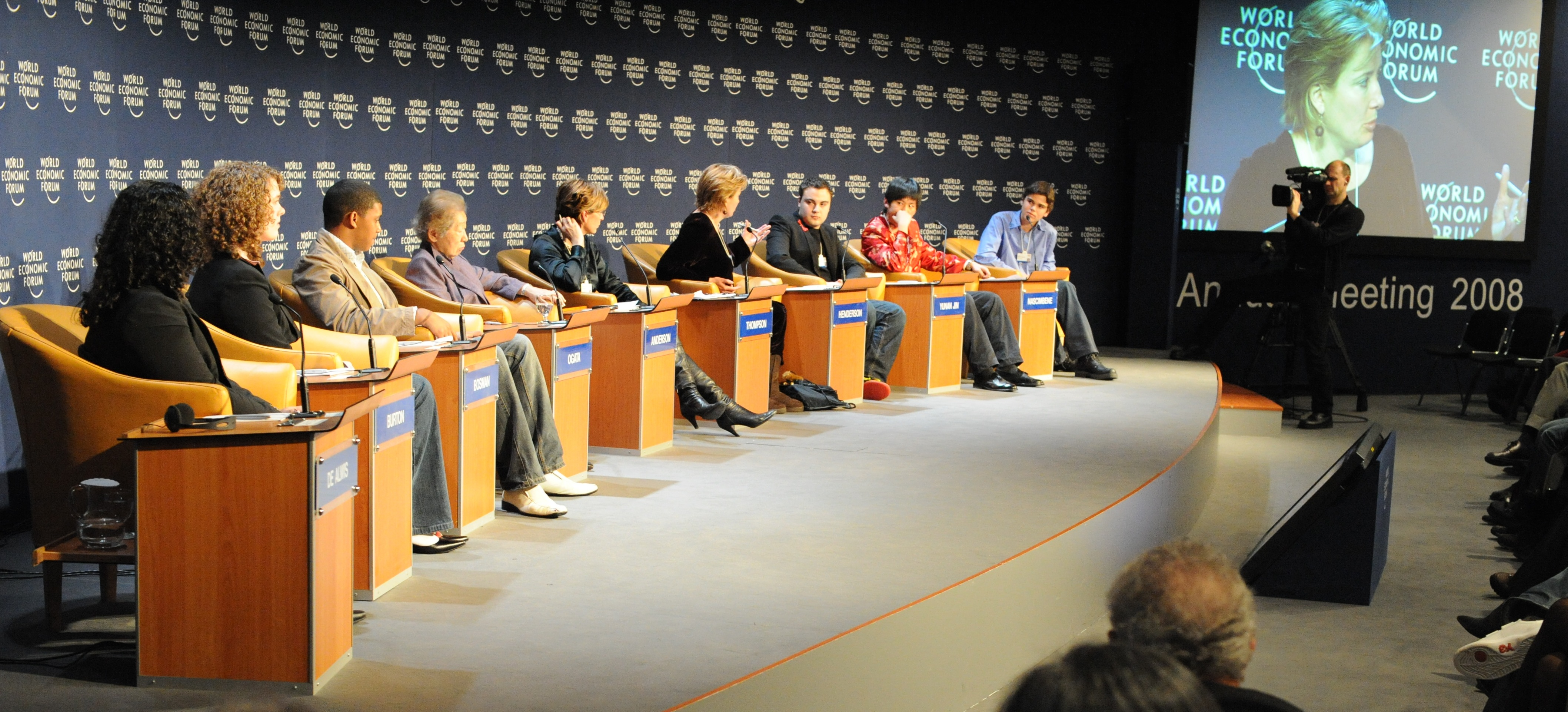 British actress Emma Thompson leads a youth panel at the 2008 World Economic Forum